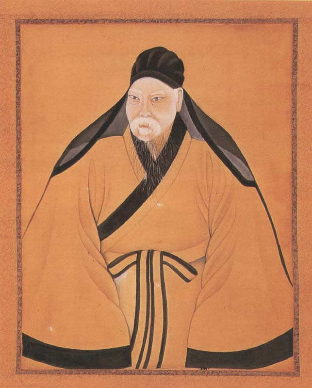 Park Ji-won